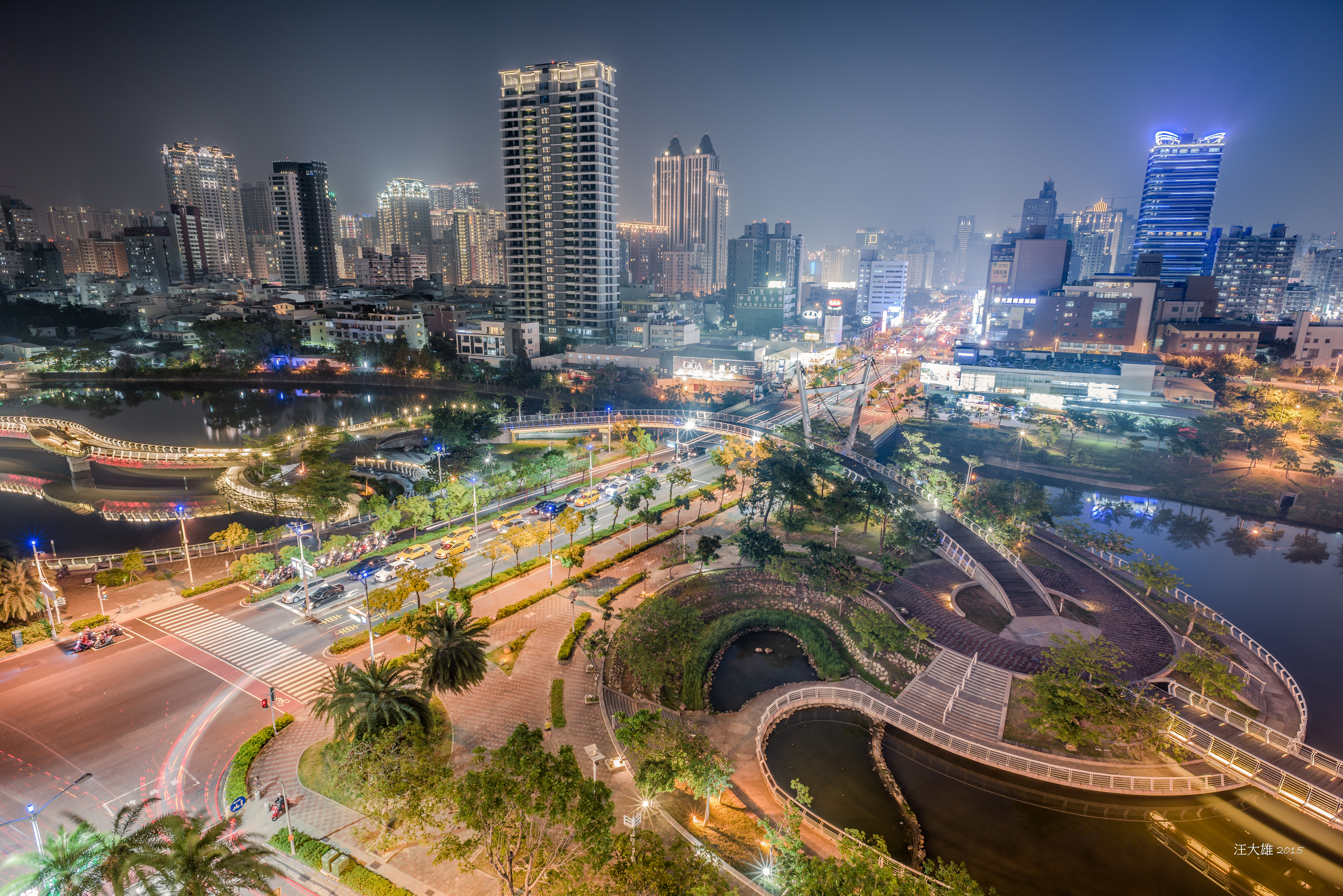 Heart of Love River Ruyi Lake in Kaohsiung, Taiwan